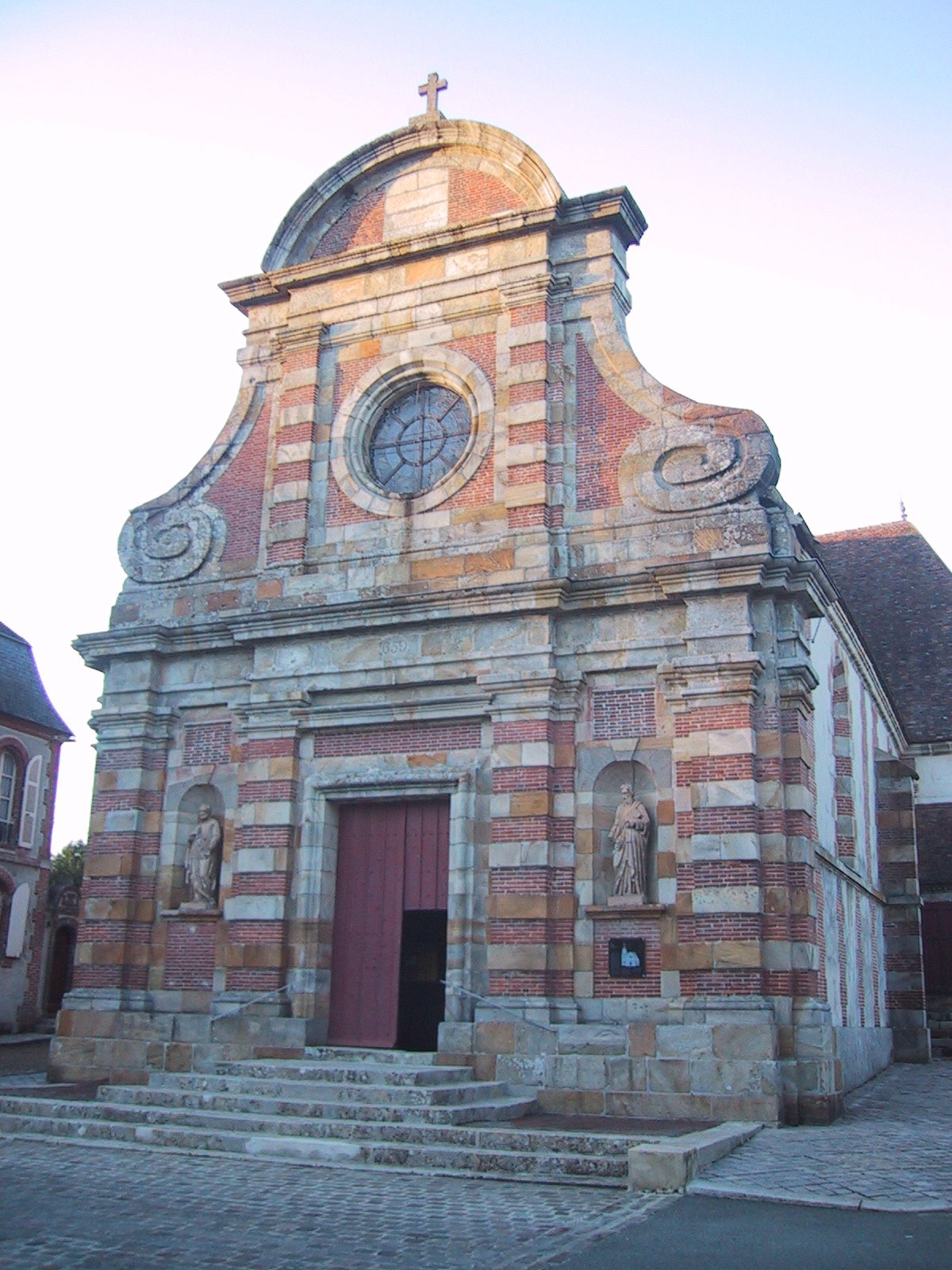 Église Saint-Nicolas (La Ferté-Vidame, 17th century)